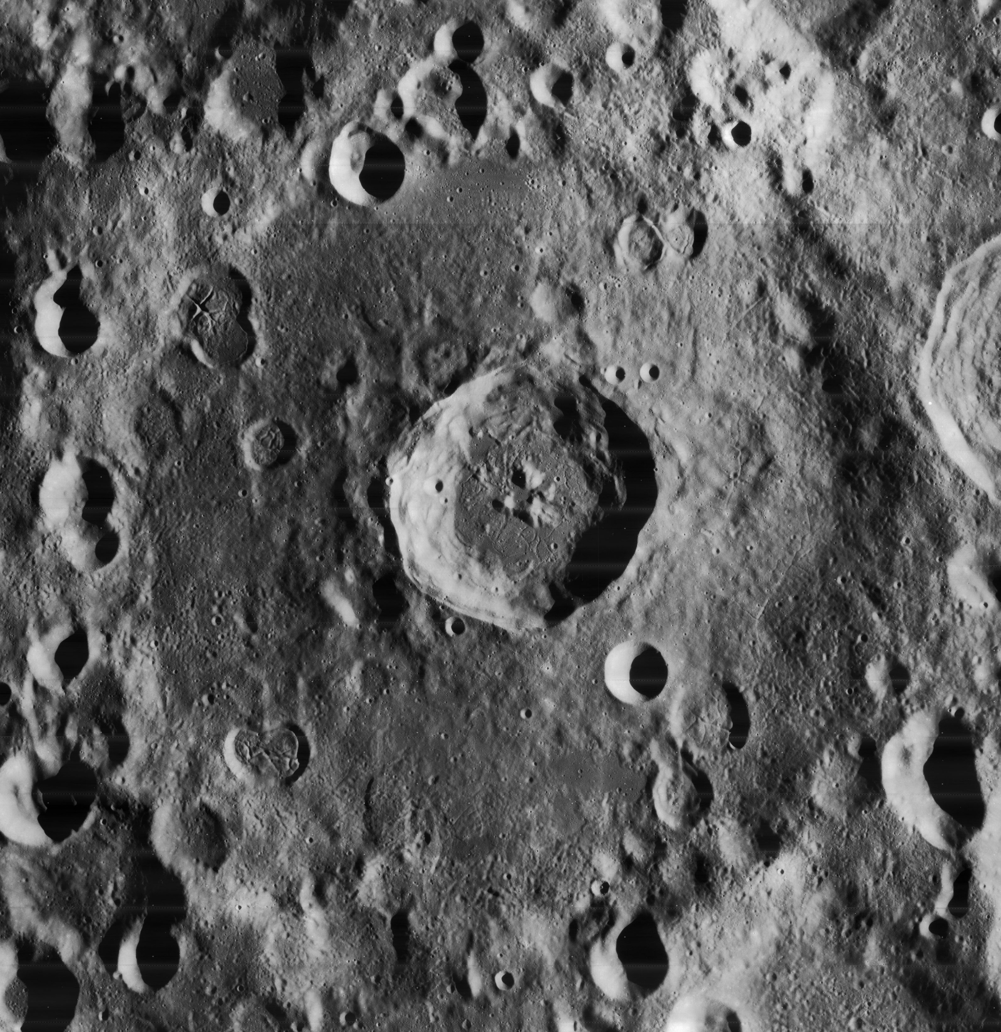 Einstein, on the moon. The larger, eroded crater filling the frame is Einstein. The smaller crater at center is Einstein A.